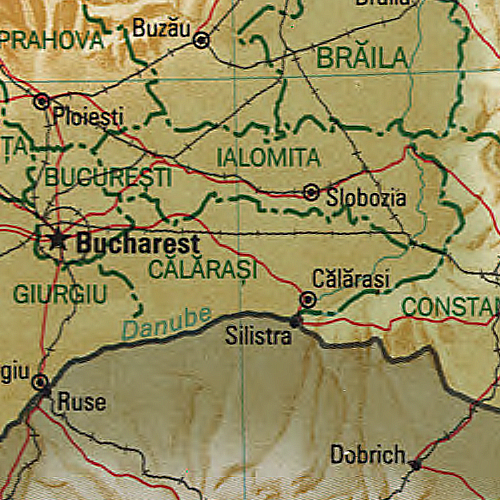 Map of Călărași County, Romania.